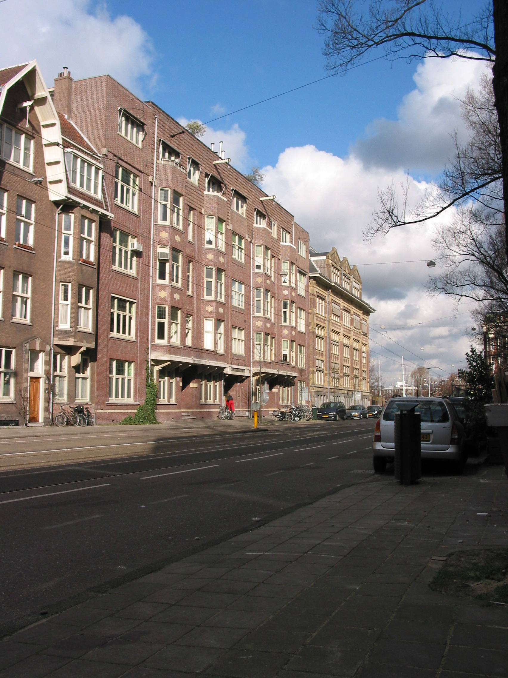 Loma House, De Lairessestraat 4-8, Amsterdam [built in 1914 by architect F.A. Warners].